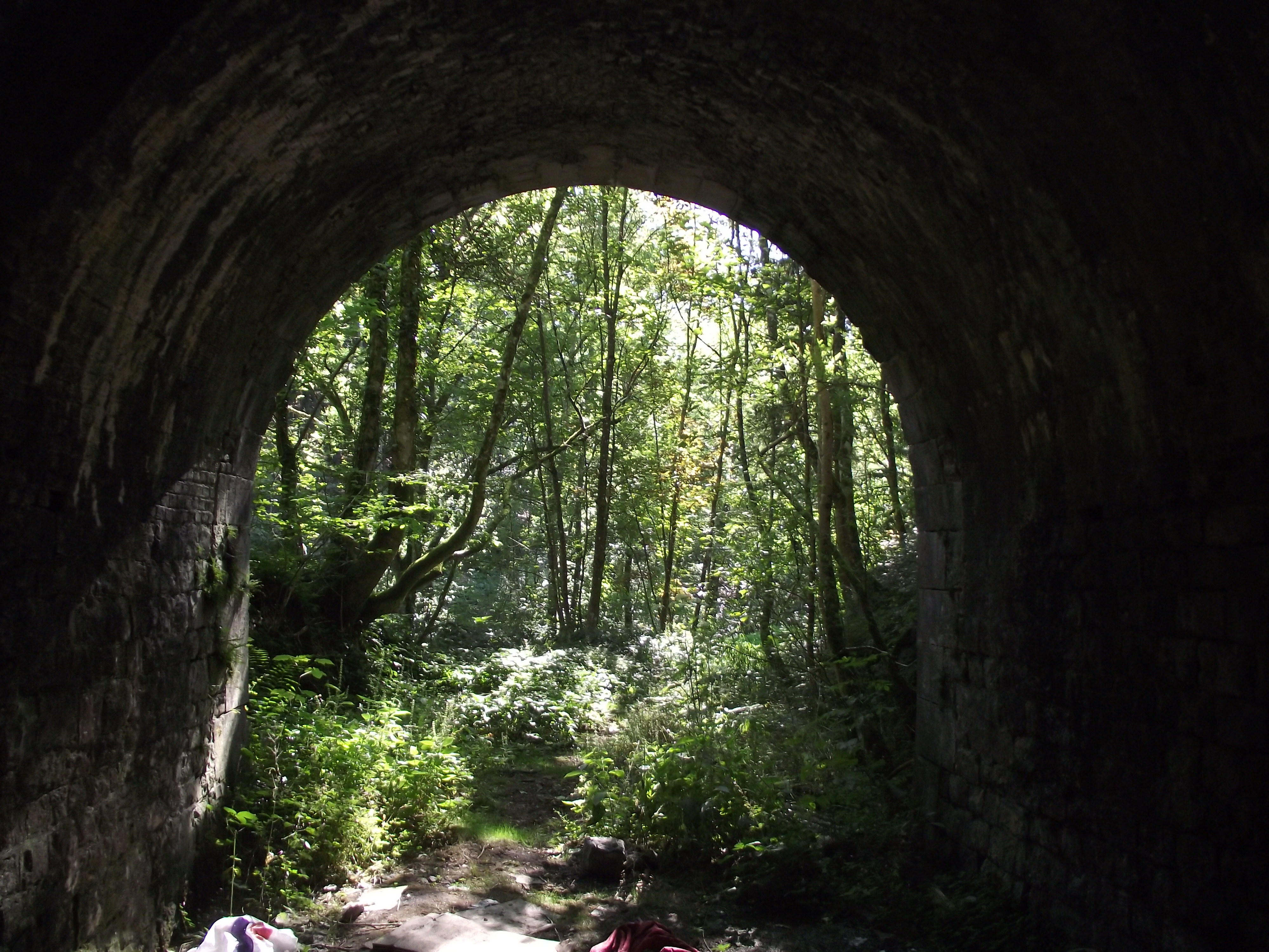 South end of the disused vicinal railway tunnel in Bouillon.